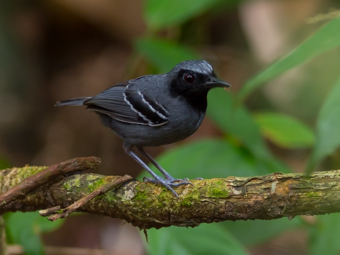 Black-faced Antbird (male) (ssp ardesiacus) at Novo Airão, Amazonas, Brazil.